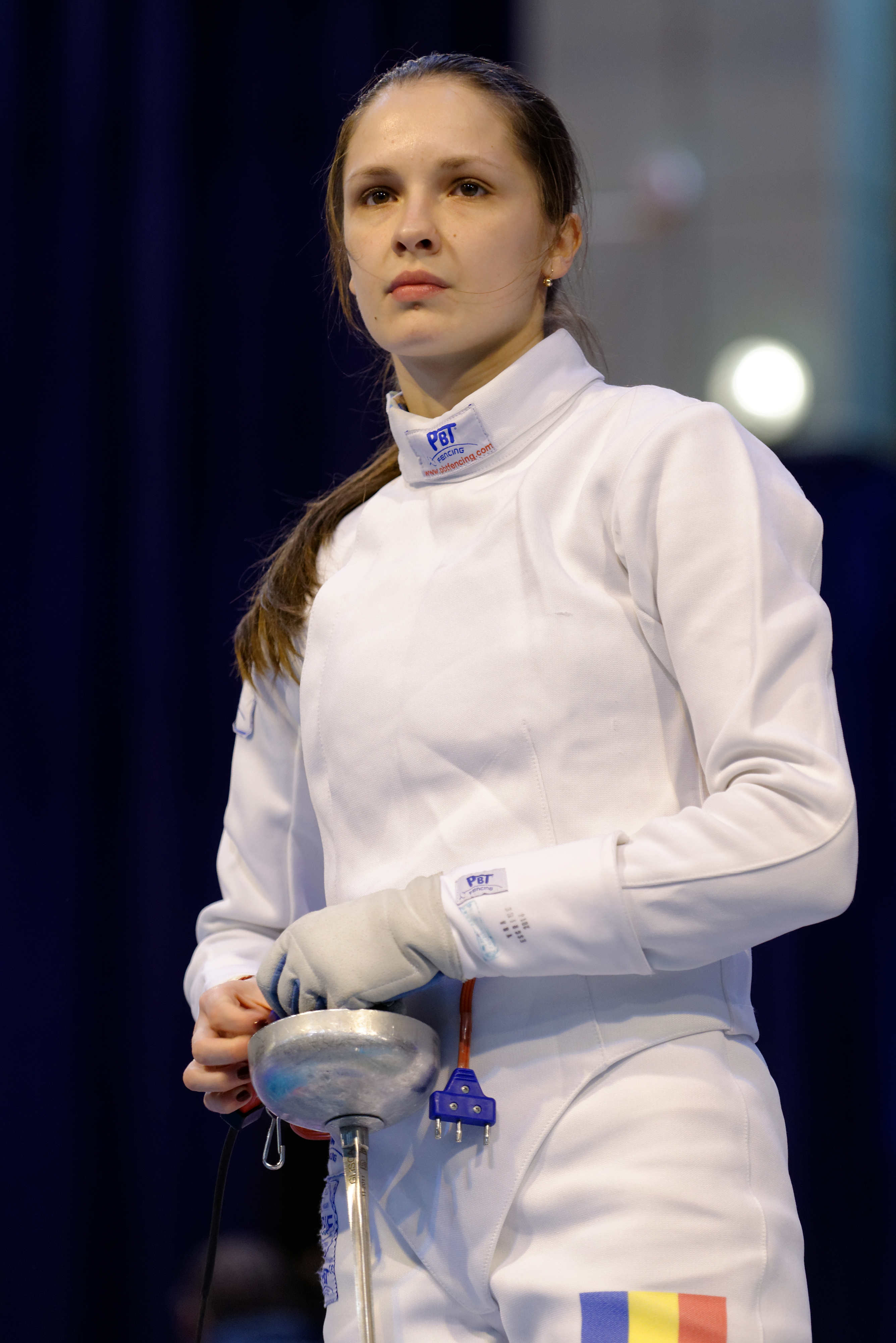 Romania's Simona Pop at the 2014 Challenge International de Saint-Maur (women's épée World Cup).